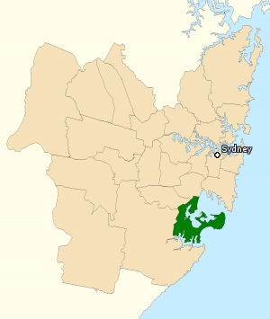 Incorporates or developed using Administrative Boundaries ©PSMA Australia Limited licensed by the Commonwealth of Australia under Creative Commons Attribution 4.0 International licence (CC BY 4.0). Derived from State and Territory Boundaries from the Australian Bureau of Statistics under Creative Commons Attribution 2.5 Australia license (CC BY 2.5 AU)